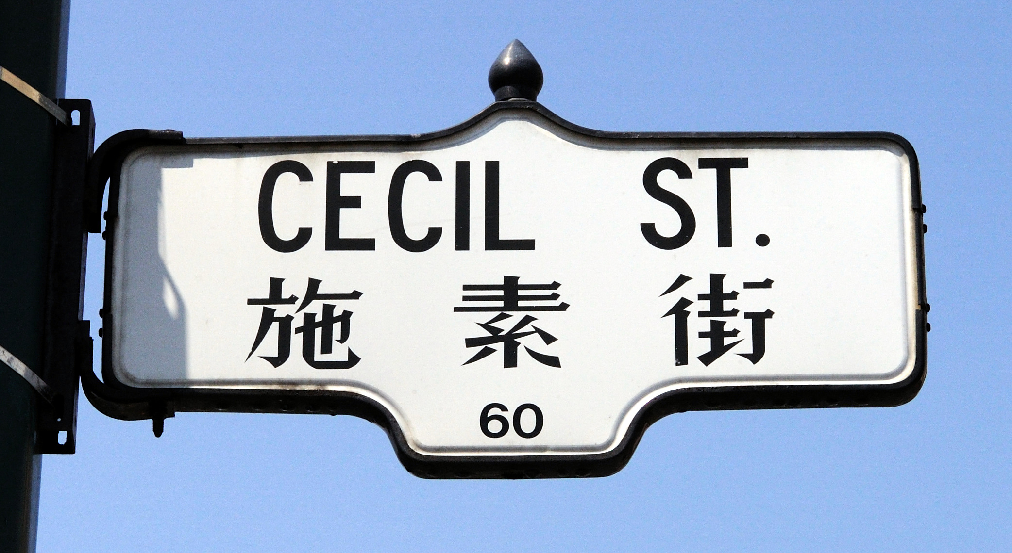 Bilingual Street sign in Toronto China Town